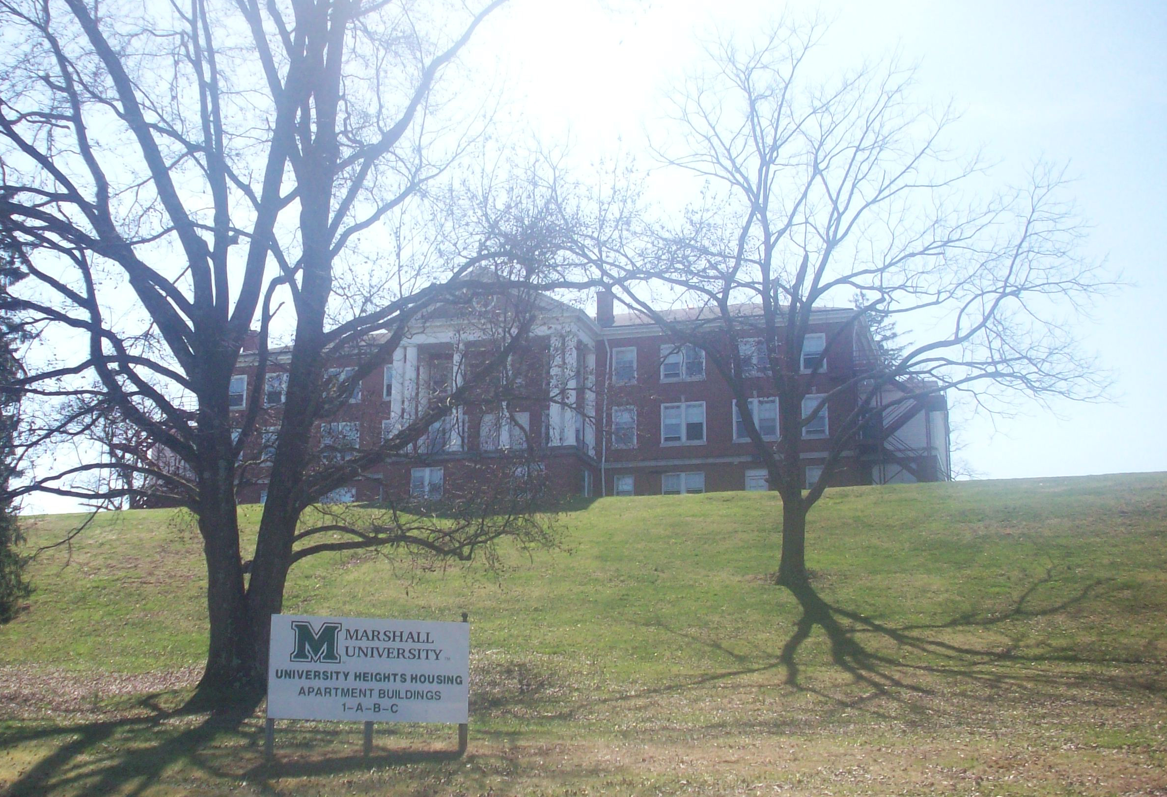 Photo of the University Heights building located in Huntington, West Virginia. The photo was taken from the base of the hill along the road connecting the complex to US Route 60. The site was once the West Virginia Colored Children's Home (a segregation-era orphanage for African American children) and apartments for Marshall University students. Pending litigation, the area will either be a middle school or a drug treatment facility in the future.